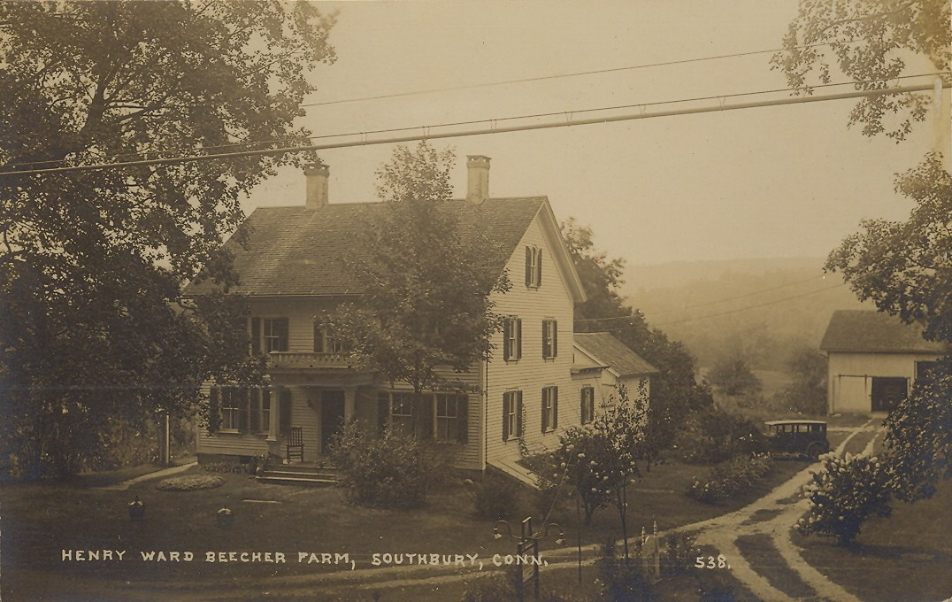 Postcard picture of the Henry Ward Beecher farm in Southbury, Connecticut; appears to have been taken sometime in the 1910s